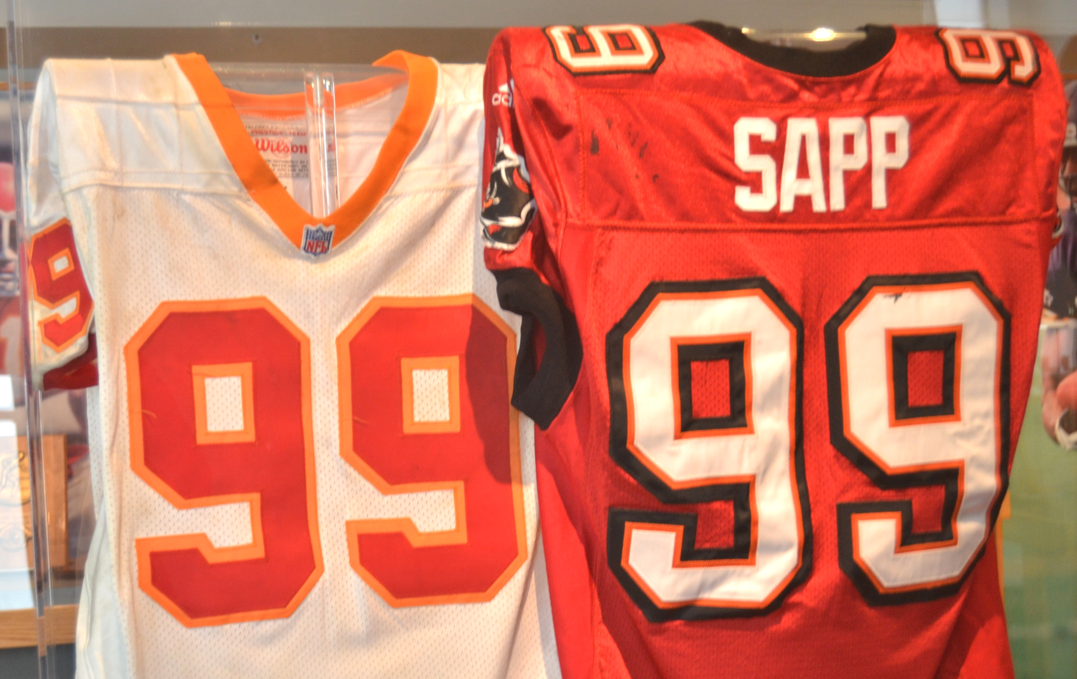 Warren Sapp jerseys shown at Pro Football Hall of Fame in Canton, OH